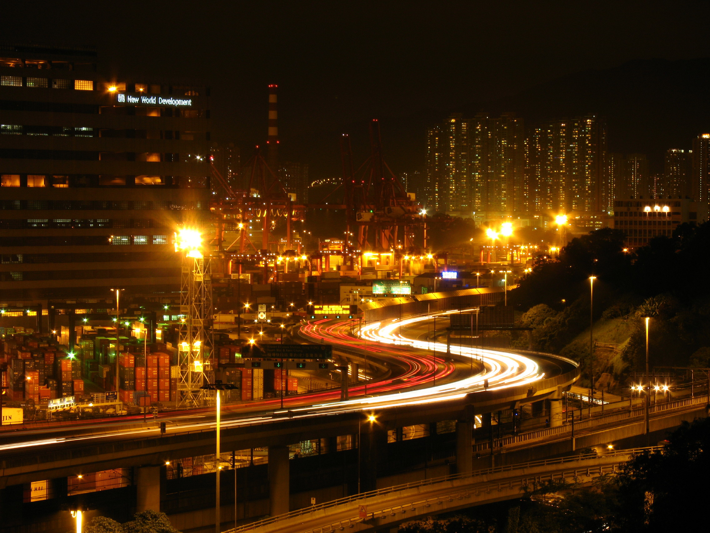 Tsing Kwai Highway at night. 中文（香港）: 晚間的青葵公路。